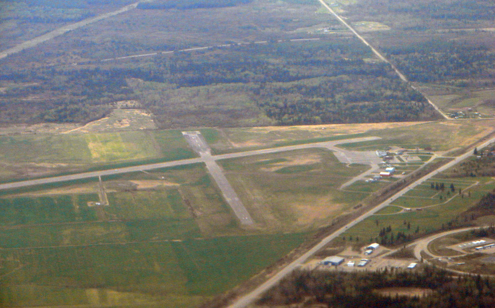 Aerial view of Kapuskasing Airport, Ontario, Canada